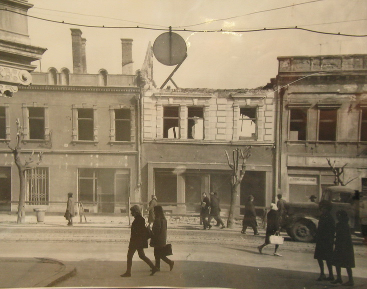 Destruction of old houses in Košice